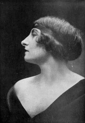 French opera singer Suzanne Balguerie (1888-1973)